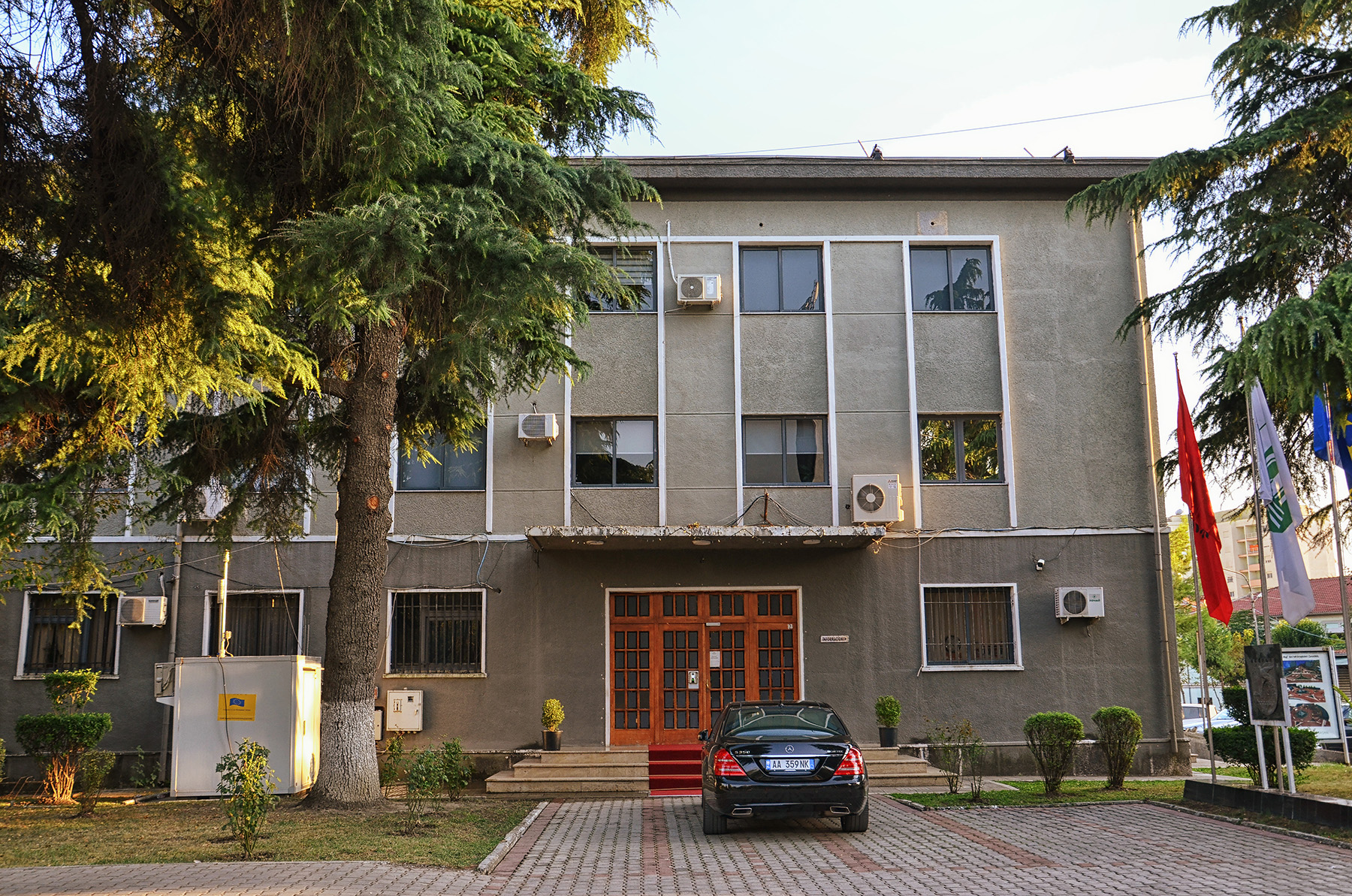 Municipality Hall in Elbasan, Albania